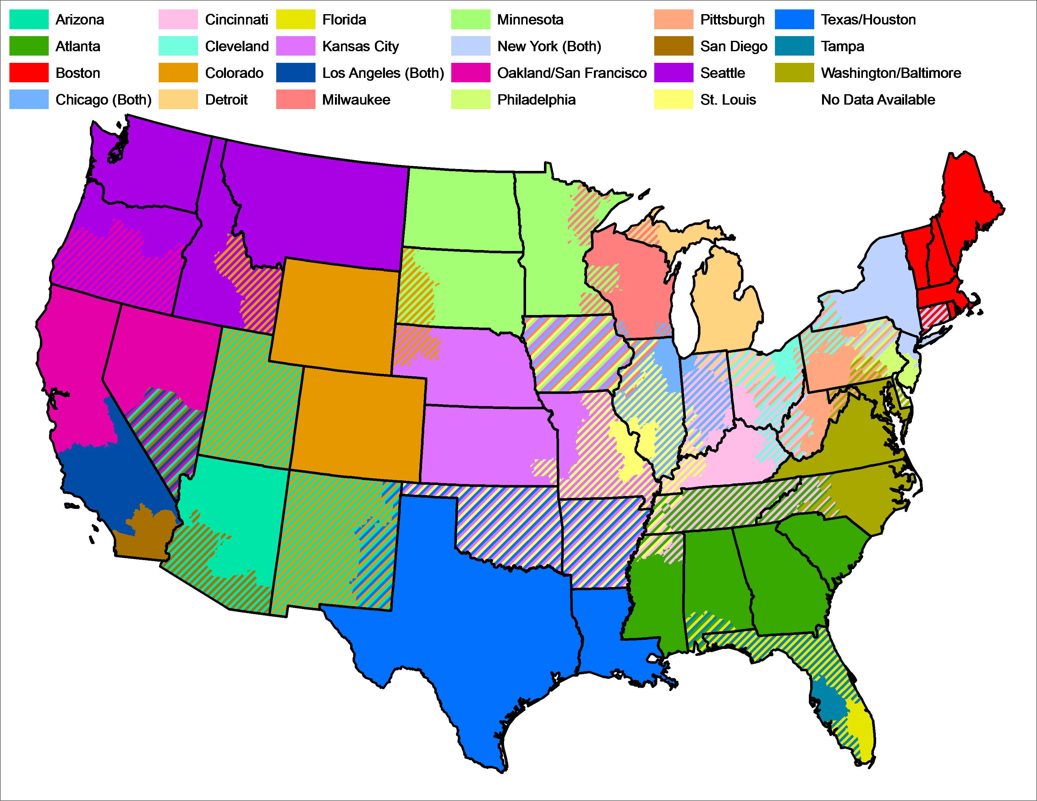 Map showing which Major League Baseball teams have local blackout rights in which areas of the United States. Areas where only one team (or two teams with identical blackout areas) has blackout rights are solid colors as indicated on map. Areas where multiple teams have blackout rights are symbolized as stripped areas with each team having blackout rights being represented by appropriately colored stripes. Not pictured: Hawaii: Oakland Athletics, Seattle Mariners, San Francisco Giants, San Diego Padres, Los Angeles Angels of Anaheim, and Los Angeles Dodgers. Alaska: Seattle Mariners Puerto Rico: unknown US Virgin Islands and Guam: All teams